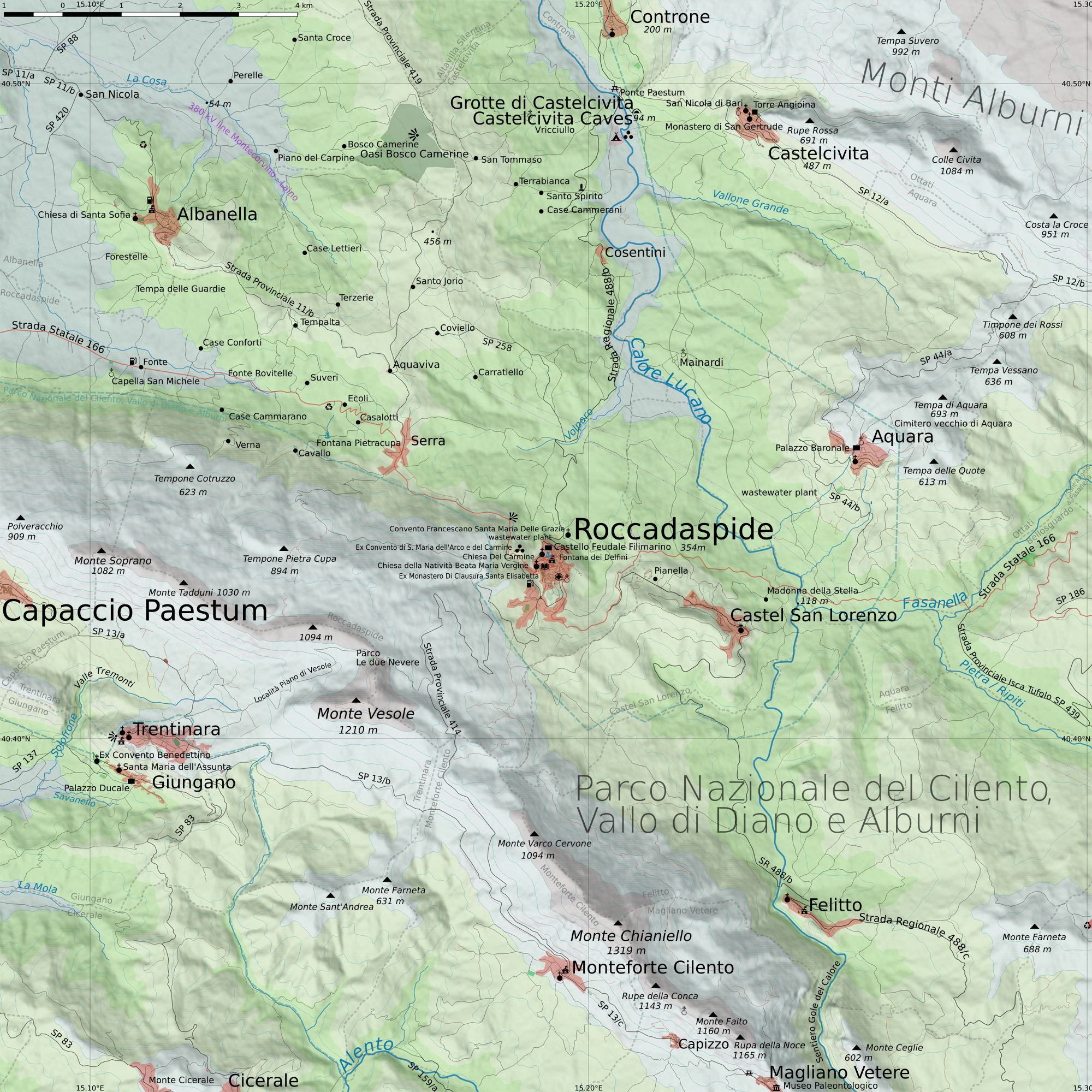 Map of Roccadaspide, Campania, Italy. Scale: 1 pixel equals 9.3 m. Projection: WGS 84 / Pseudo Mercator, EPSG: 3857. Extent (xmin, ymin, xmax, ymax): 1678912.606 4916351.686 1703296.606 4940735.686. Legend: primary road secondary road tertiary road unclassified road pedestrian road other road track/path road under construction power line boundary comune boundary national park natural_water dam ditch river major river stream building historic tourism leisure park/pitch/sports_centre/track cemetery construction quarry industrial residential conservation amenity 0 - 100 m 100 - 250 m 250 - 500 m 500 - 1000 m 1000 - 2000 m 100 m contour lines archaeological site town hall recycling centre picnic site library hospital fuel station cave entrance monument museum